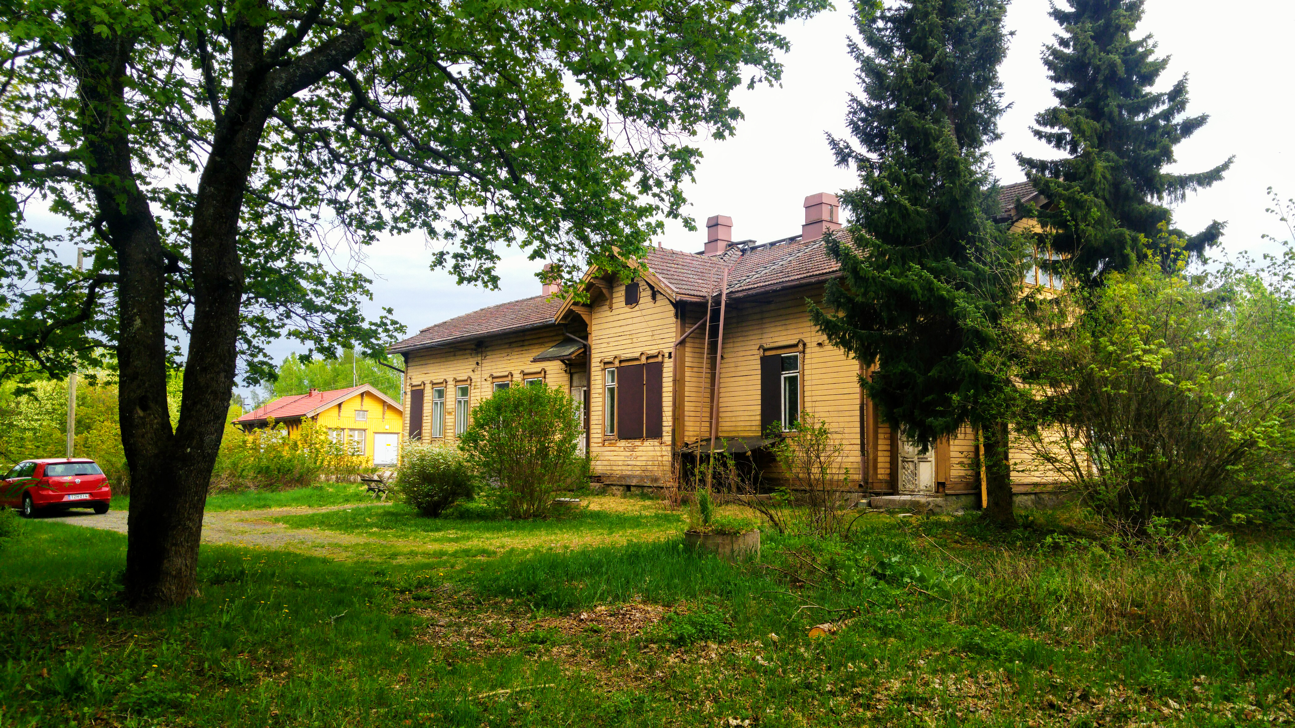 Piikkiö railway station 27.5.2017